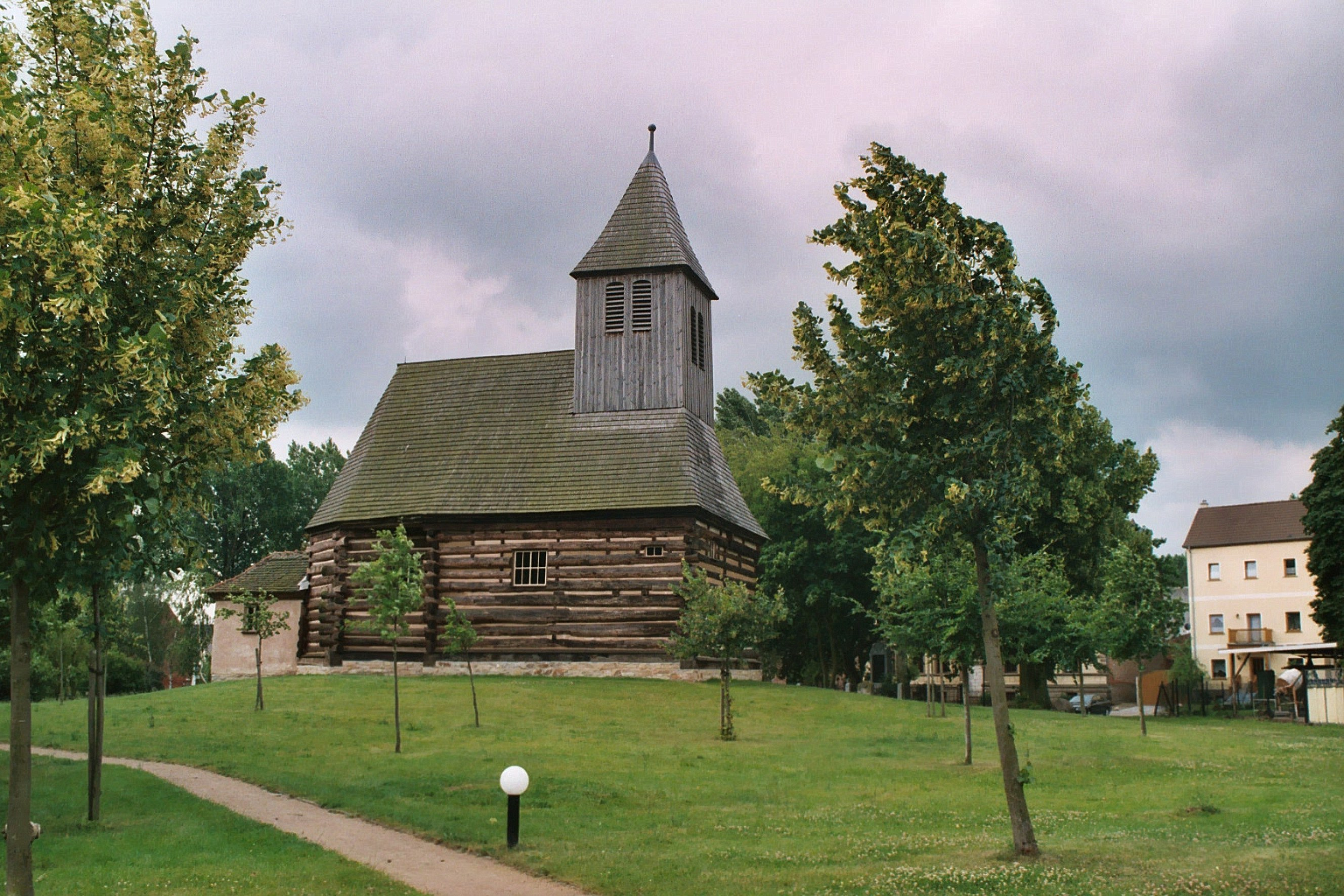 Wespen (Barby), wooden church